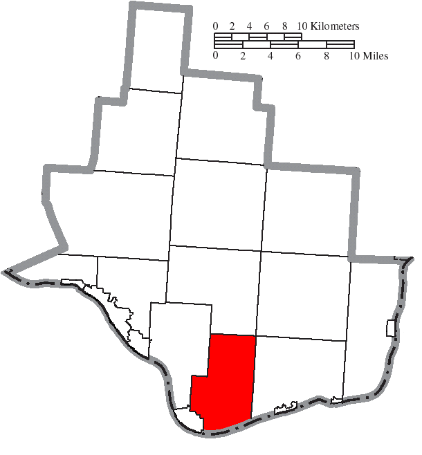 Map of the municipal and township boundaries of Lawrence County, Ohio, United States, as of the 2000 census, with the location of Fayette Township highlighted. Township borders are shown only in unincorporated areas in order to differentiate incorporated and unincorporated areas more clearly.